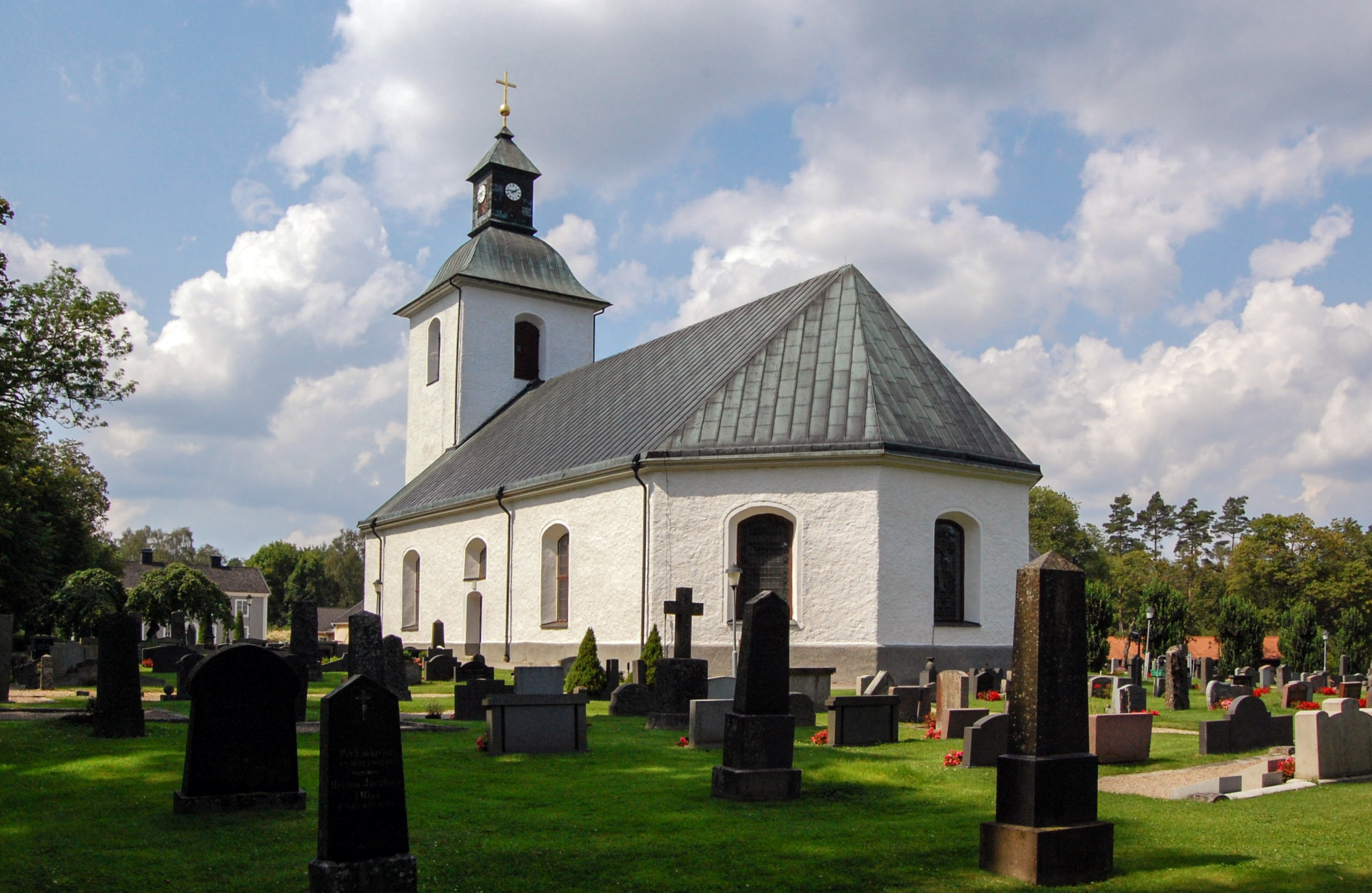 Vislanda Church.Exterior